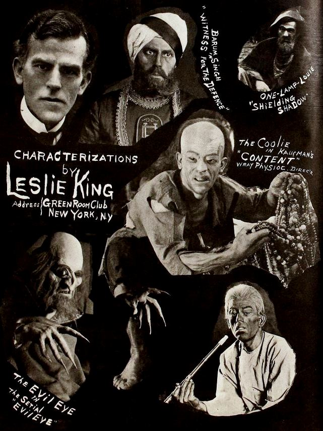 Characterizations by American actor Leslie King in recent films, on page 4750 of the June 12, 1920 Motion Picture News. Portrayals in films include The Shielding Shadow (1916), The Witness for the Defense (1919), and The Evil Eye (1920).